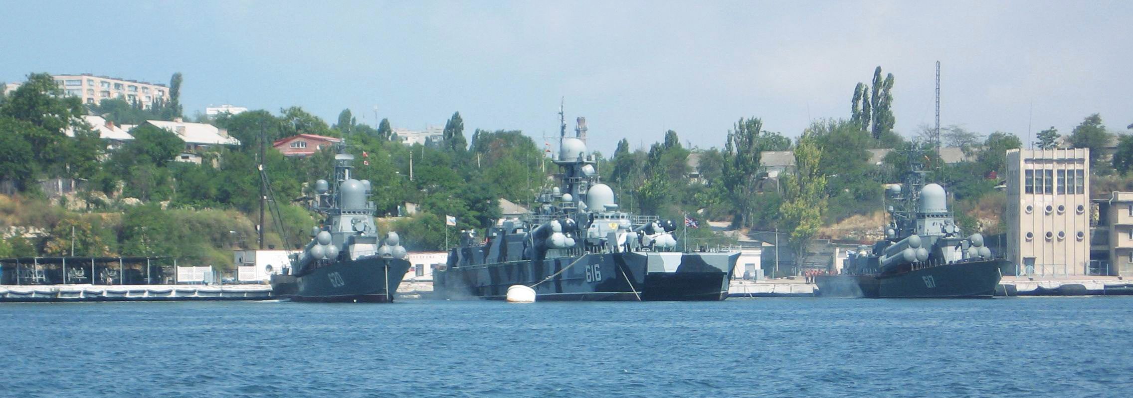 Guided missile corvettes of the Soviet and Russian Black Sea Fleet, from left to right: Guided Missile Corvette Shtil' (No.620, built in 1976) Guided Missile Corvette Samum (No.616, built in 1991) Guided Missile Corvette Mirazh (No.617, built in 1983) Source:self-made Date:2007-08-14 Author:Cmapm